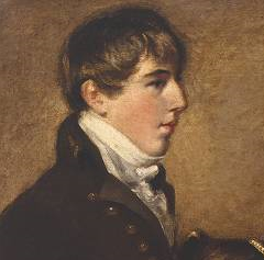 John Constable painted the family of a girl he admired in 1804. The painting is in the Tate and is called The Bridges Family. Reverend George Wilson Bridges (1788–1863) was a writer, photographer and Anglican cleric